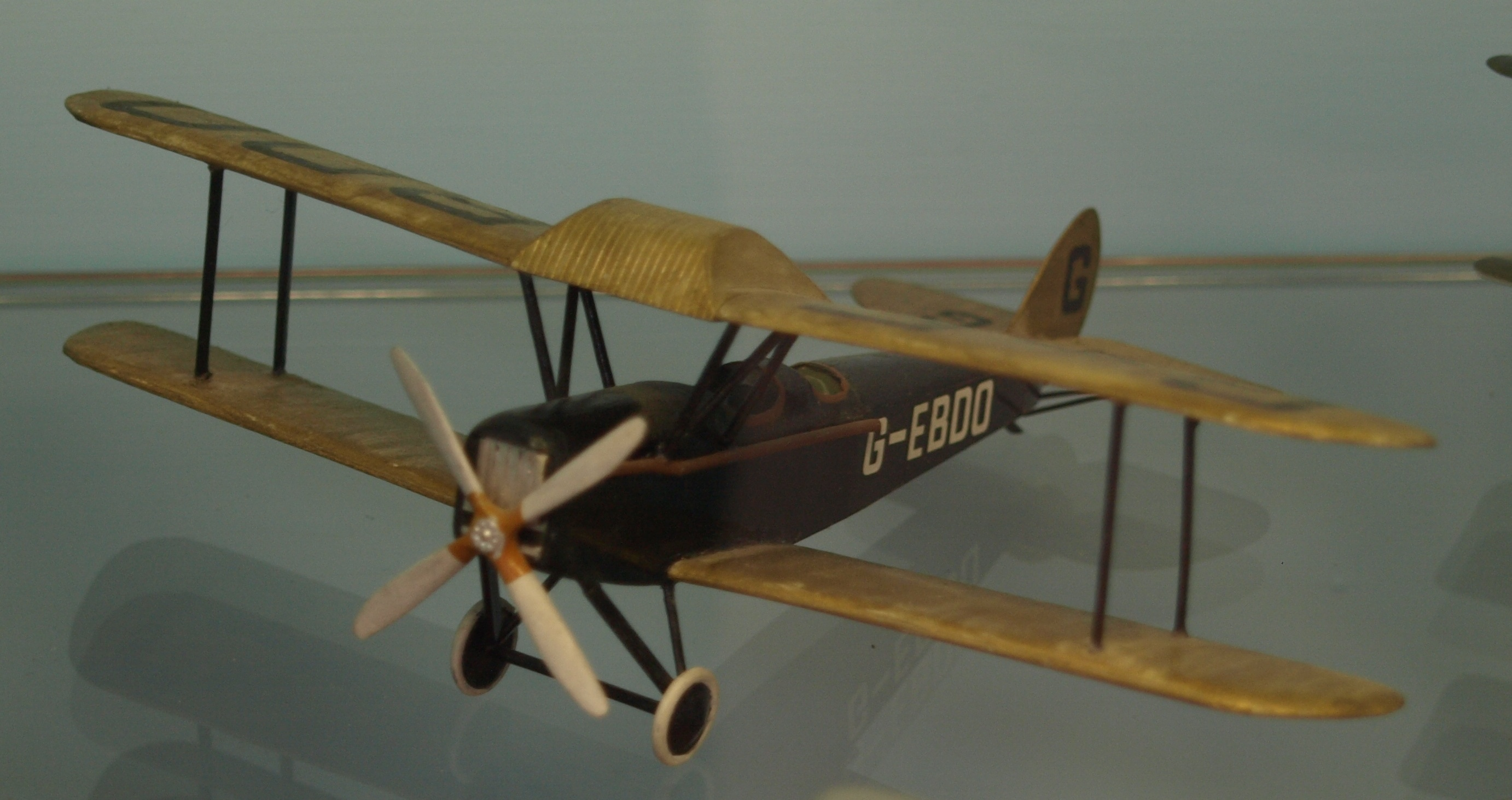 Scale model of the de Havilland DH.37A biplane, G-EBDO, on display at the Shuttleworth Collection, Bedfordshire, England.